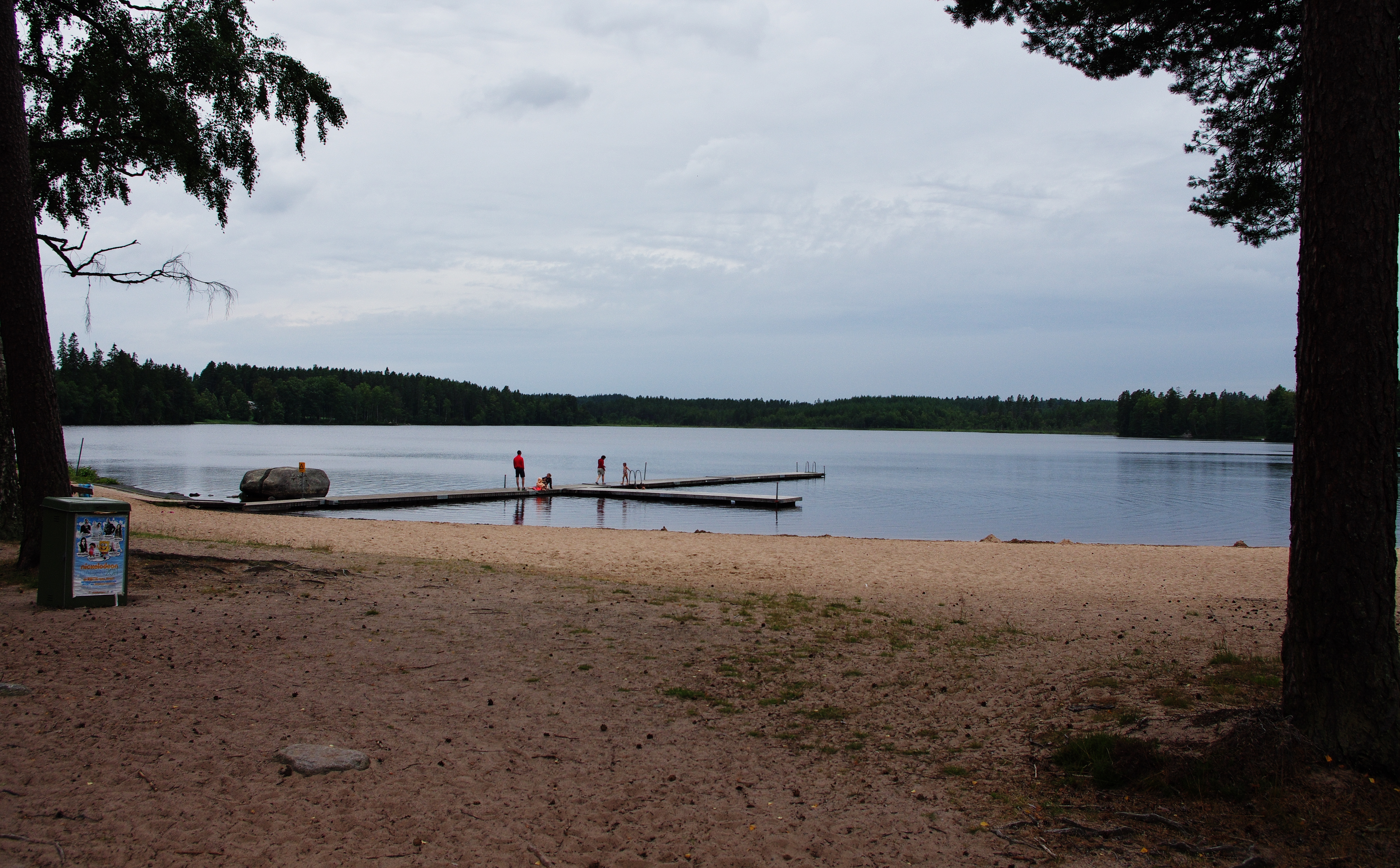 The village Furusjö in Västergötland, Sweden.